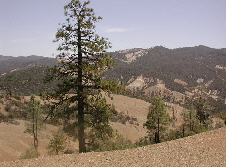 The Diablo Range in the vicinity of San Benito Mountain, California, USA